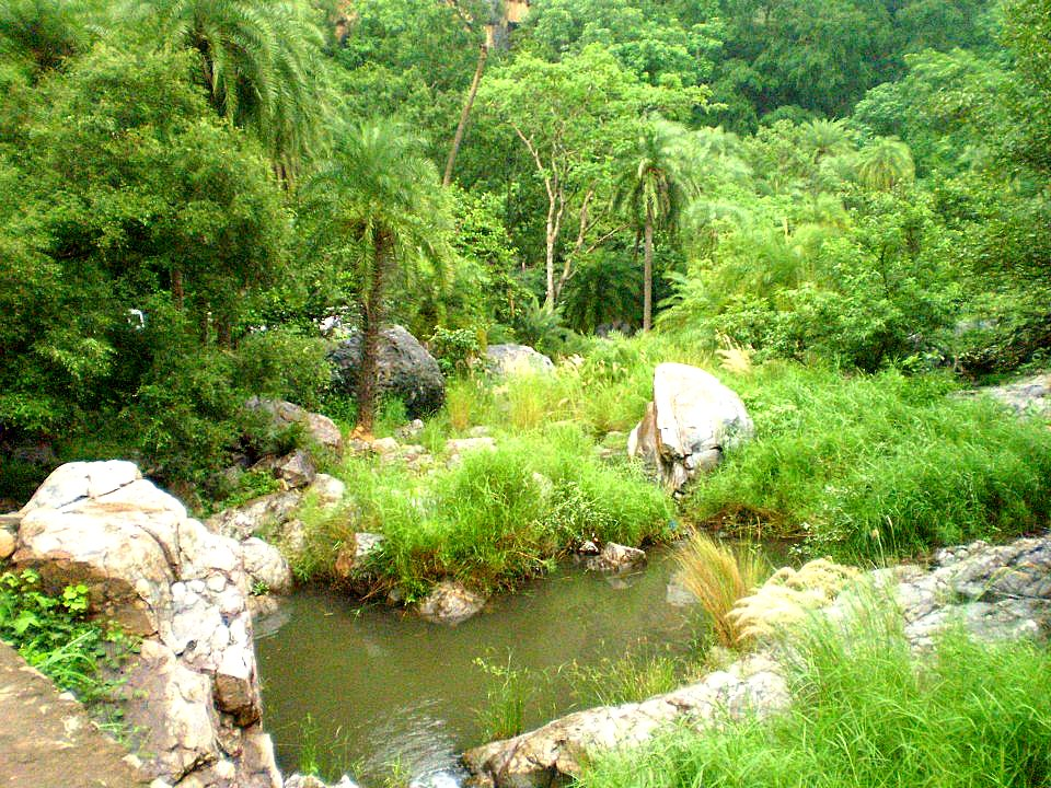 Jungles of Sariska Tiger Reserve Rajasthan